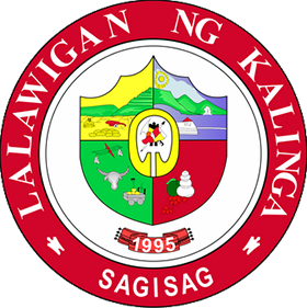 Provincial seal of Kalinga, Philippines. Winaray : Selyo han Probinsya han Kalinga ha Pilipinas.